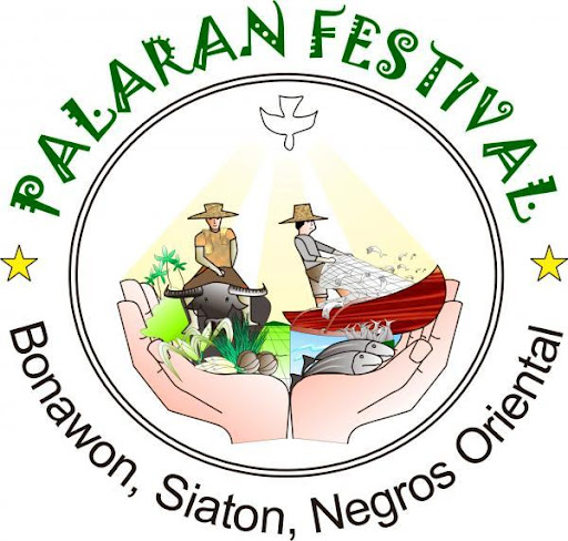 Palaran Festival Logo